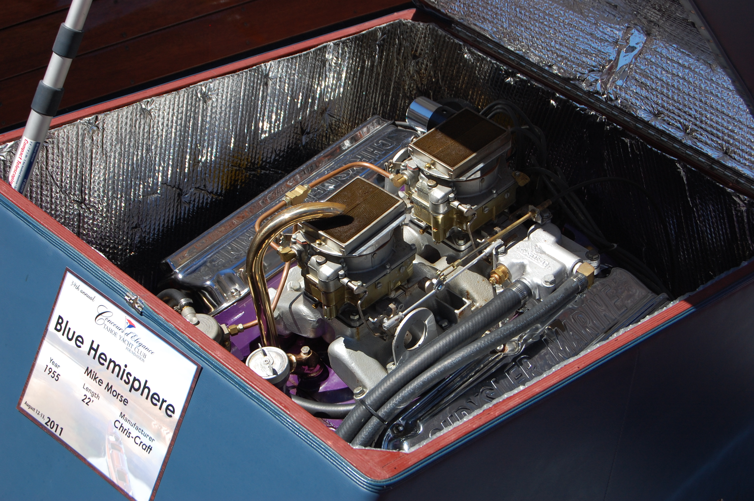 A Chrysler Marine Hemi as seen in a classic wooden boat